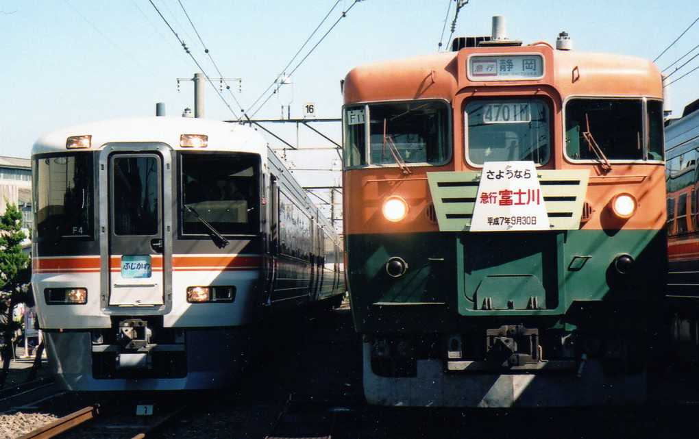 Central Japan Railway Company, EMU Type 165 and 373 at Shizuoka Rail yard